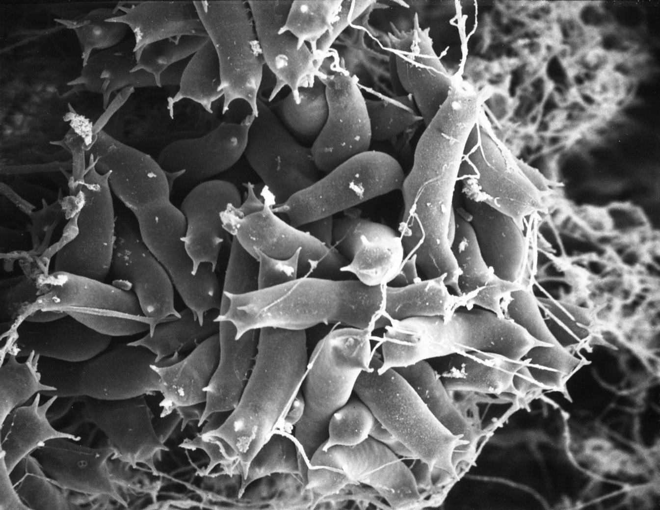 Lobosporangium transversalis